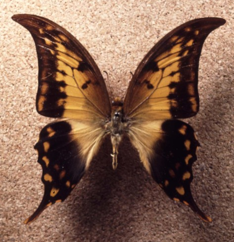 Meandrusa payeni, specimen from the Ulster Museum